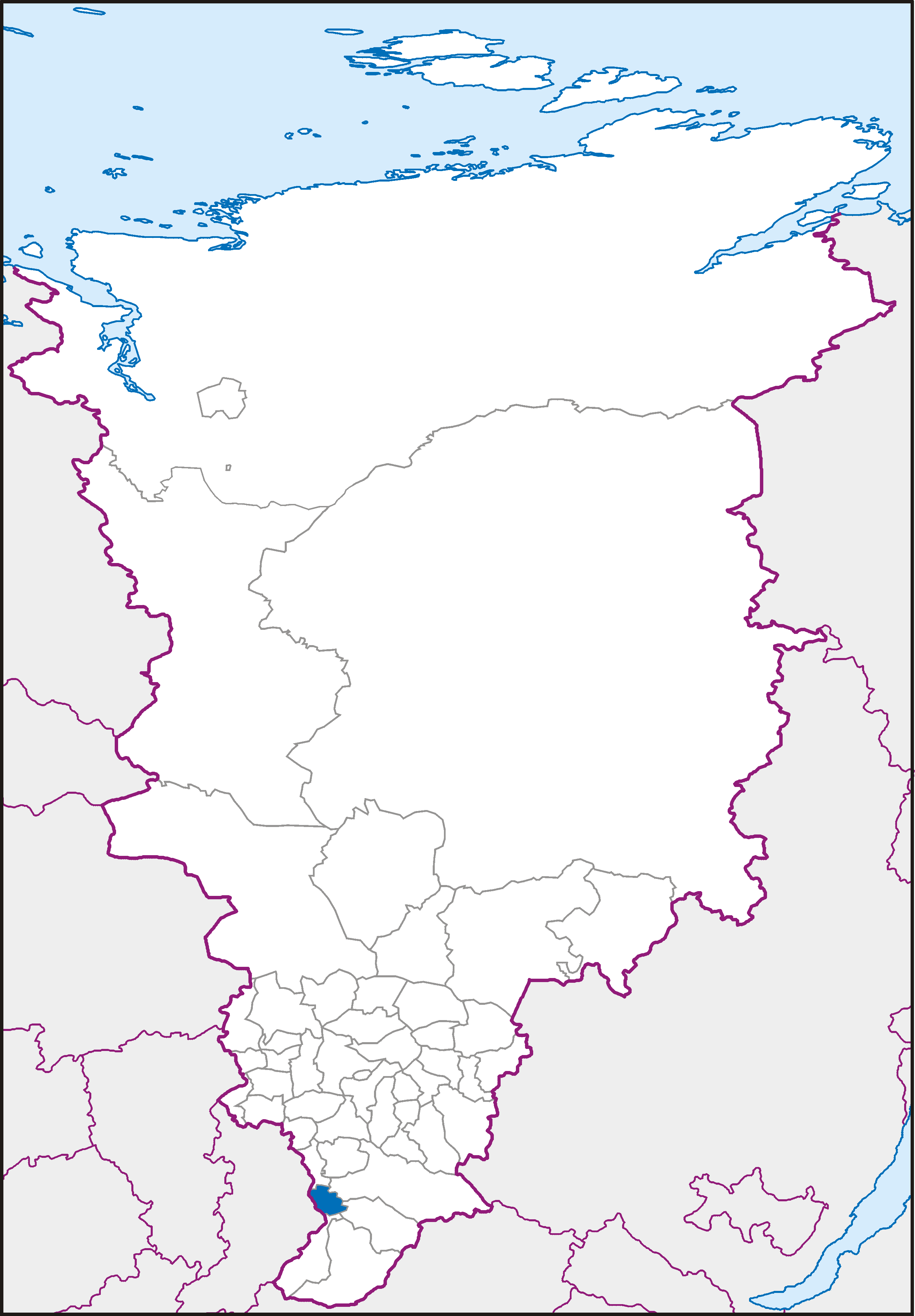 Map of Krasnoyarsk Krai in Albers Equal-Area Conic projection (Central Meridian = 95° E)